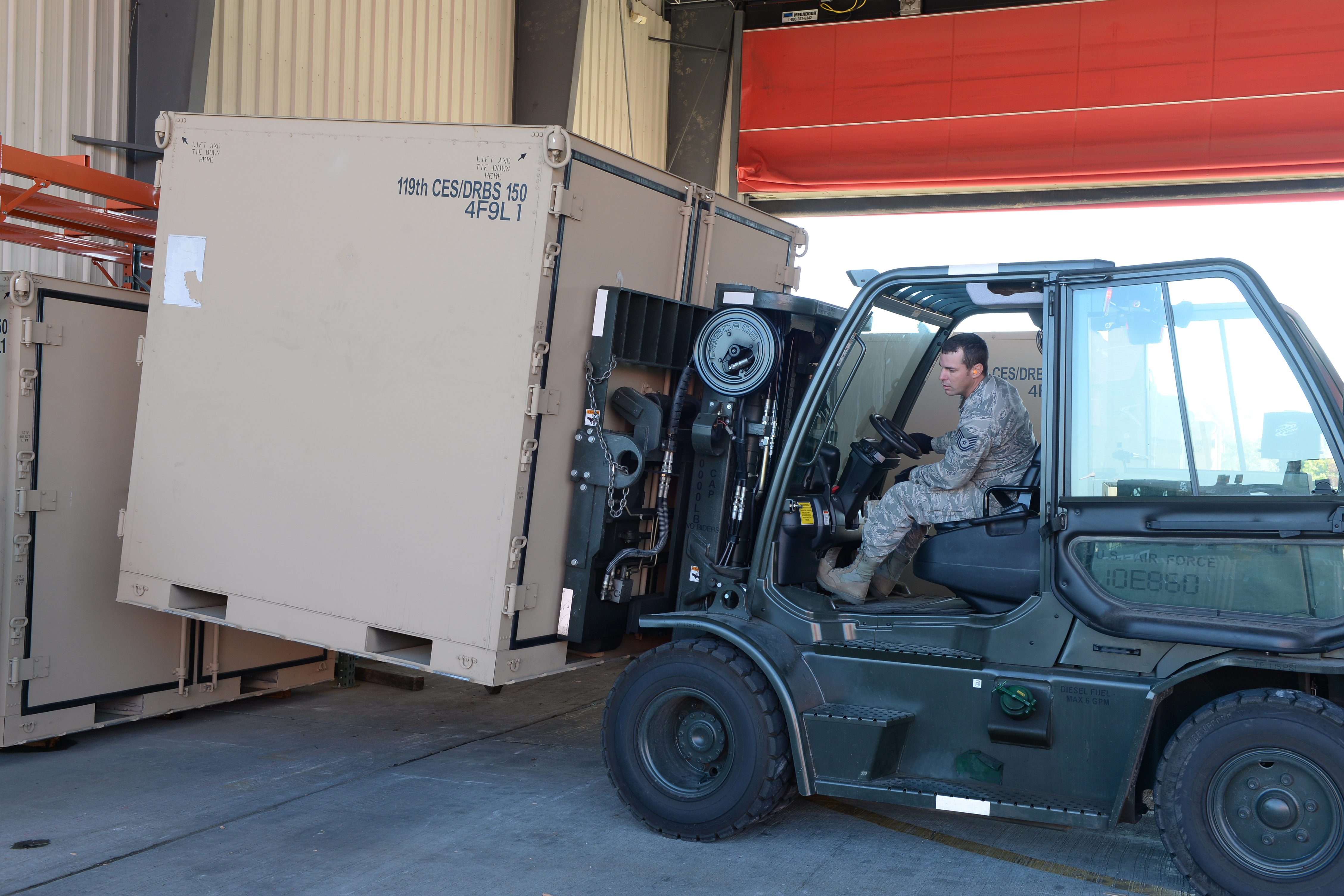 Tech. Sgt. Matthew Swandel, of the 119th Logistics Readiness Squadron, maneuvers a forklift into position as he places a Disaster Relief Beddown Set (DRBS) container while preparing it for shipping at the North Dakota Air National Guard Base, Fargo, N.D., Sept. 20, 2017. The container is one of approximately 27 being readied for shipping to a hurricane disaster area in the Caribbean in the aftermath of Hurricane Irma and Hurricane Maria. The DRBS is a portable ‘tent city’ designed to house 150 people, that includes; showers, laundry facilities, latrines, water purification, generators and power distribution. (U.S. Air National Guard Photo by Senior Master Sgt. David H. Lipp)